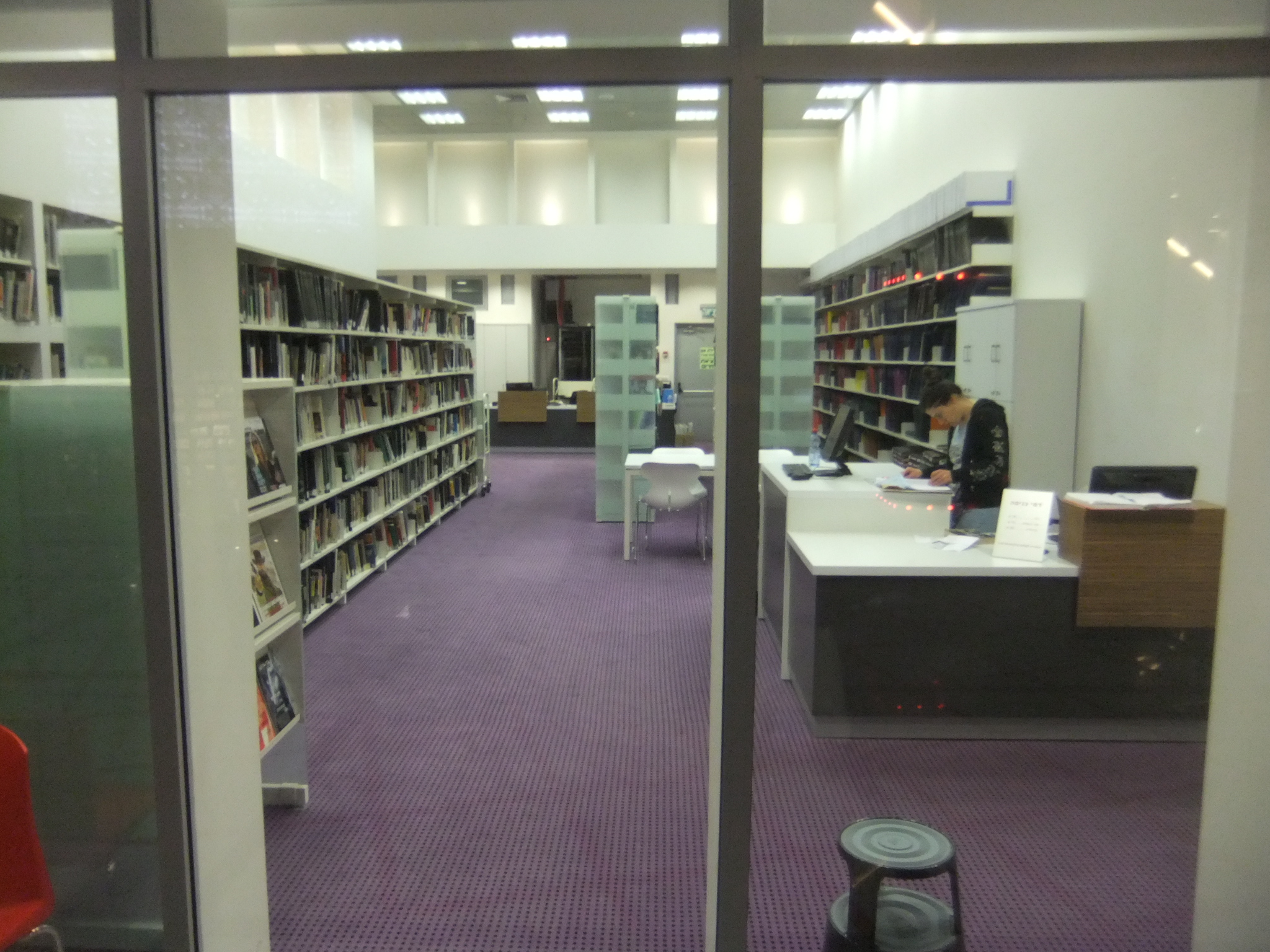 Tel Aviv Cinematheque